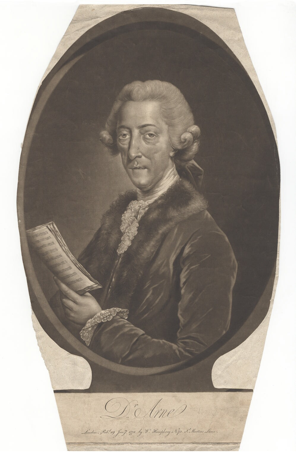 Thomas Augustine Arne (1710-1778).